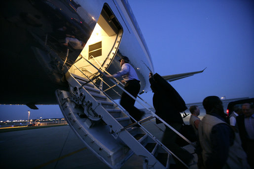 President George W. Bush boards Air Force One at Andrews Air Force Base Monday night, June 12, 2006, en route to Iraq.